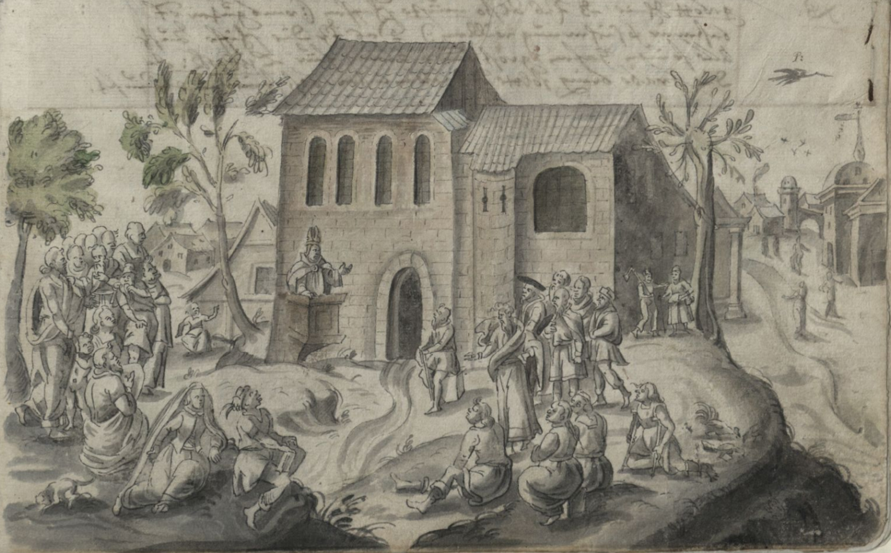 Bishop Gerold preaching outside the church St. Johann auf dem Sande in Lübeck in the 12th century